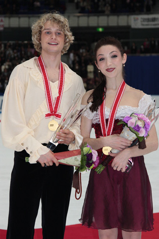 2009 NHK Trophy - Meryl Davis and Charlie White